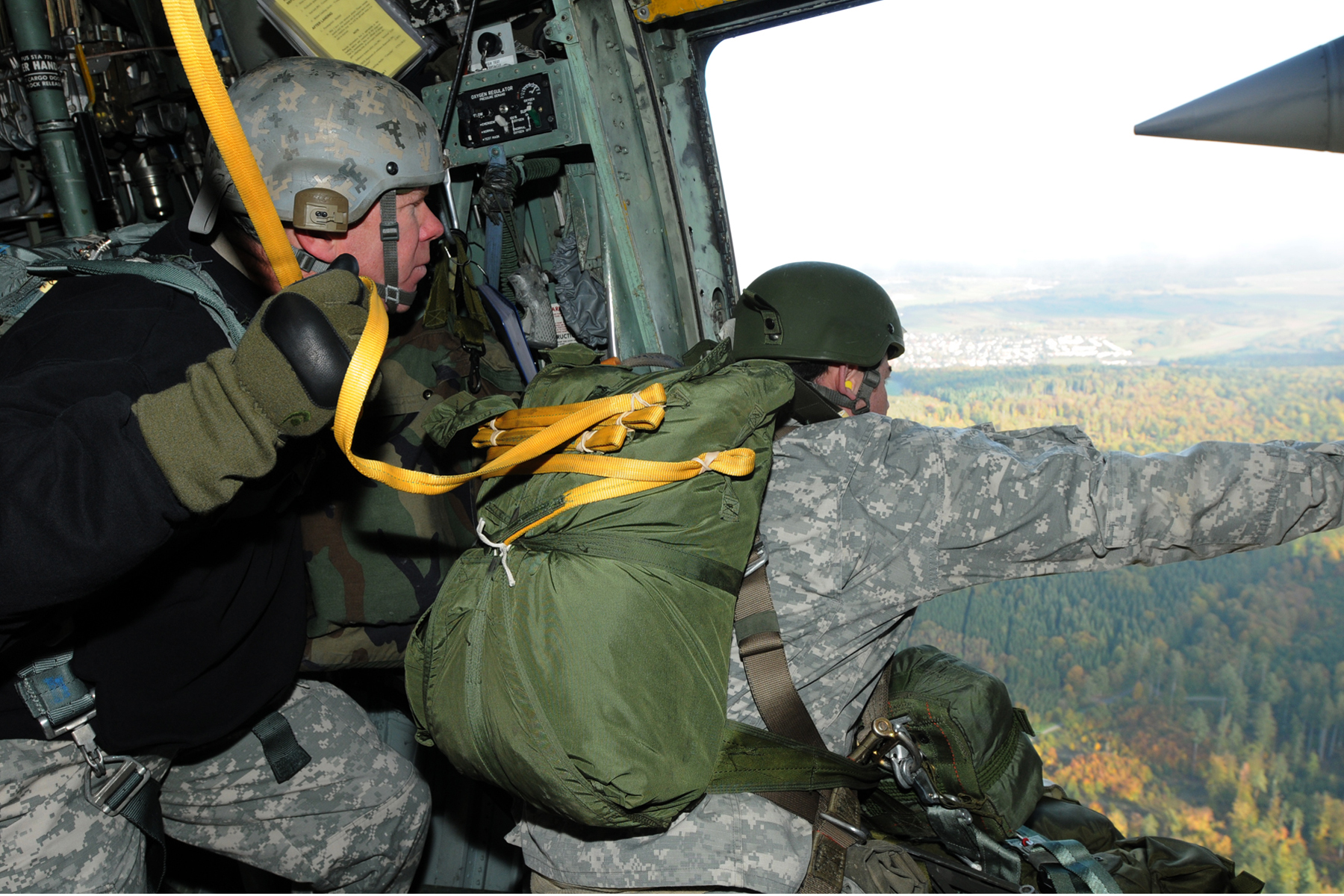 An instructor from the U.S. Army Jumpmaster Mobile Training Team observes as a jumpmaster candidate performs practical work in an aircraft as part of course requirements. The 10th Special Forces Group (Airborne) MTT came from Fort Carson, Colo., to conduct the two-week course at Stuttgart, Germany, for Special Forces and Airborne- qualified Soldiers. See more at Special Ops Soldiers earn coveted title of 'Jumpmaster'